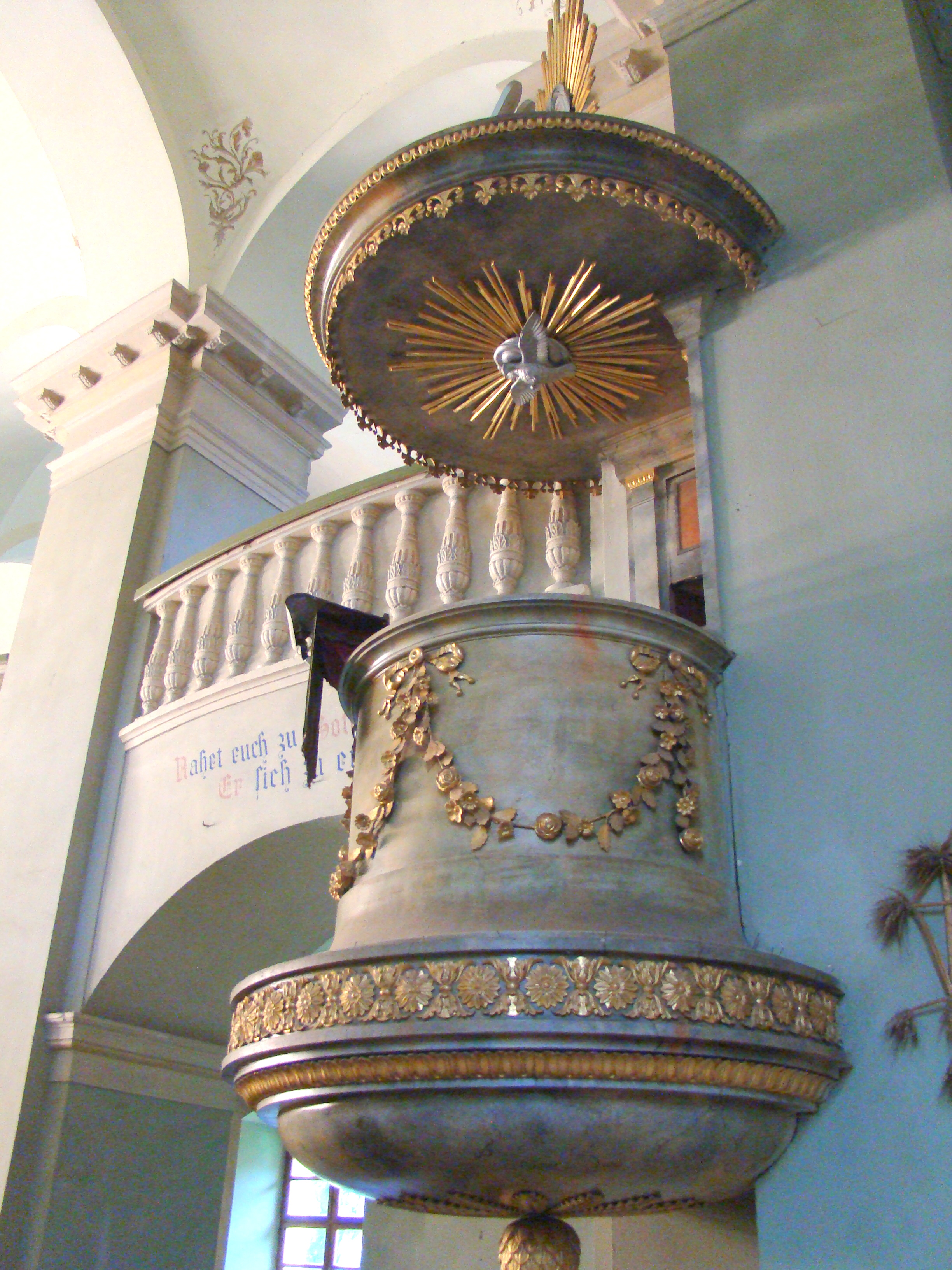 Fortified church in Cristian, Brașov County, Romania